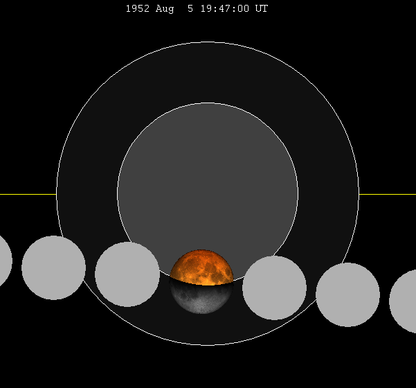 August 1952 lunar eclipse chart of moon's path through the earth's shadow. thumb